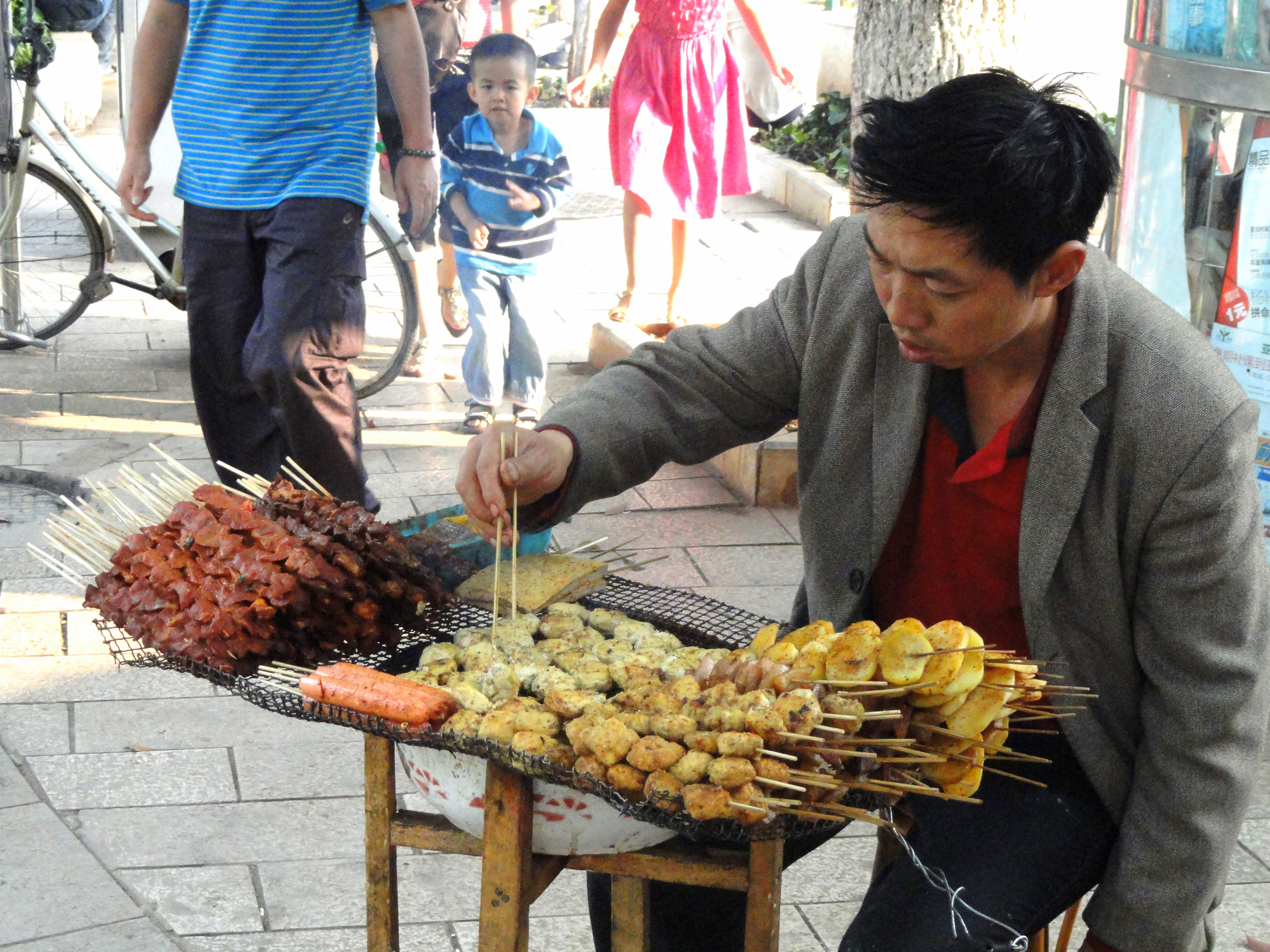 Example of food in Kunming, Yunnan, China.